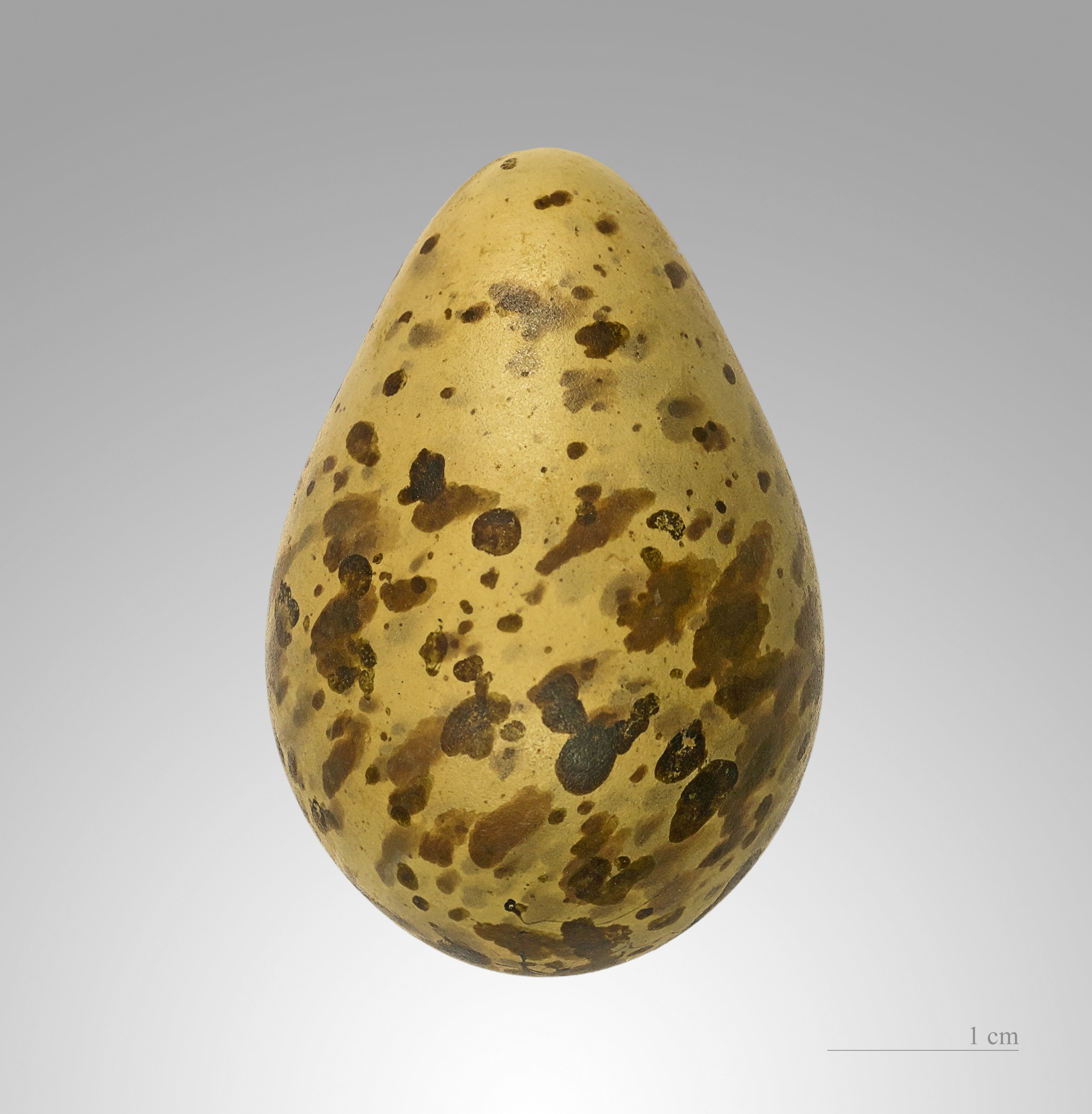 Egg of Jack Snipe. Collection of Jacques Perrin de Brichambaut